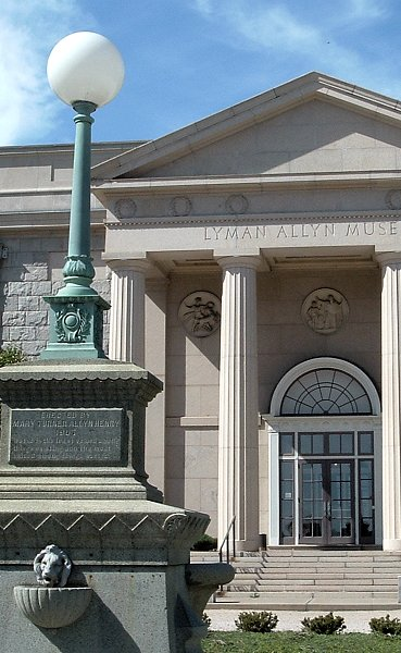 Lyman Allyn Art Museum in New London, Connecticut